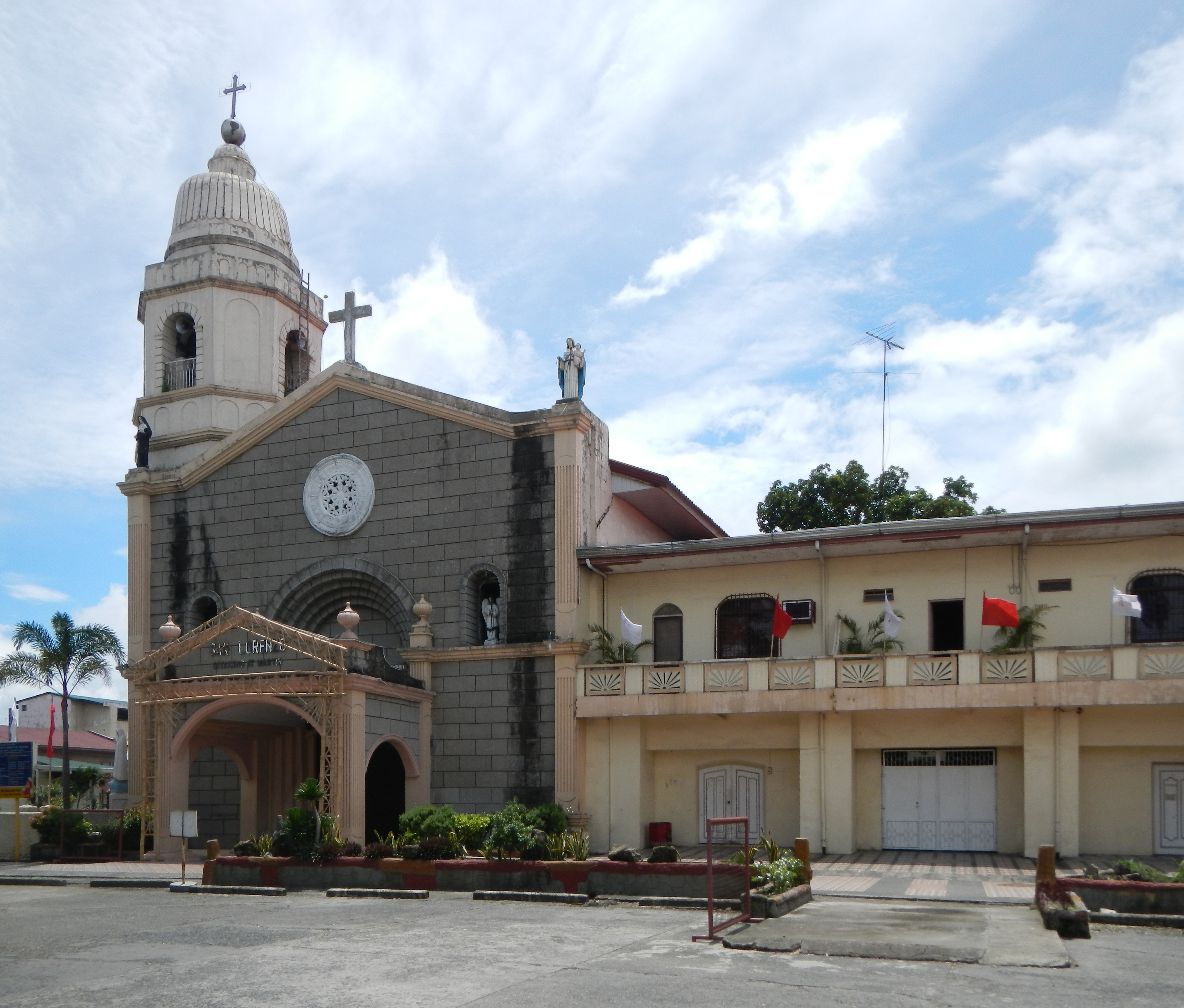 Saint Lawrence Deacon & Martyr Parish Church of Balagtas Bulacan